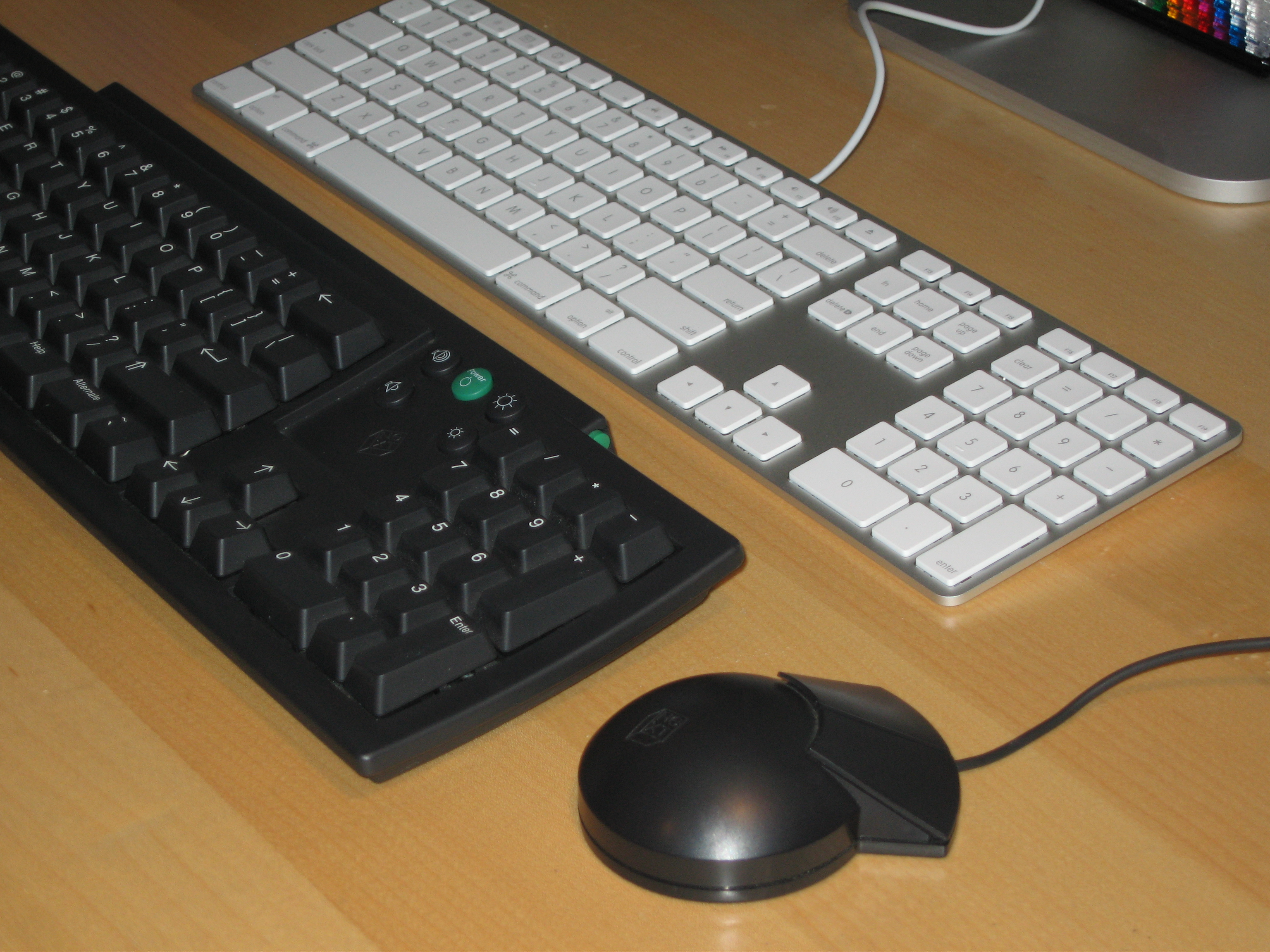 Apple Keyboard vs. NeXT ADB keyboard (circa 1992)